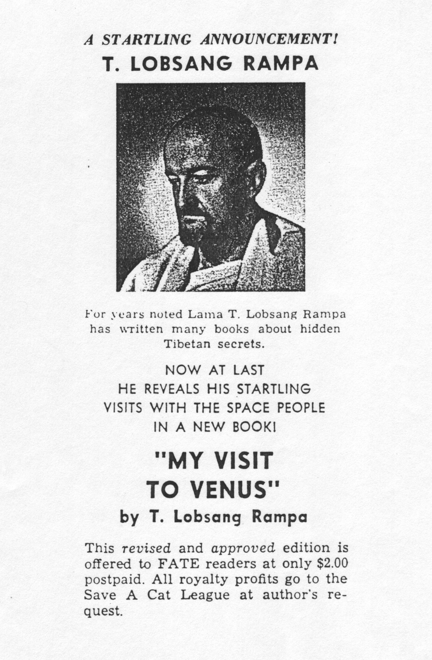 See the post on 50 Watts: Variorum of Classic Tracts and Pamphlets Around the web: 50 Watts facebook/50wattsdotcom 50 Watts tumblr Writers No One Reads tumblr